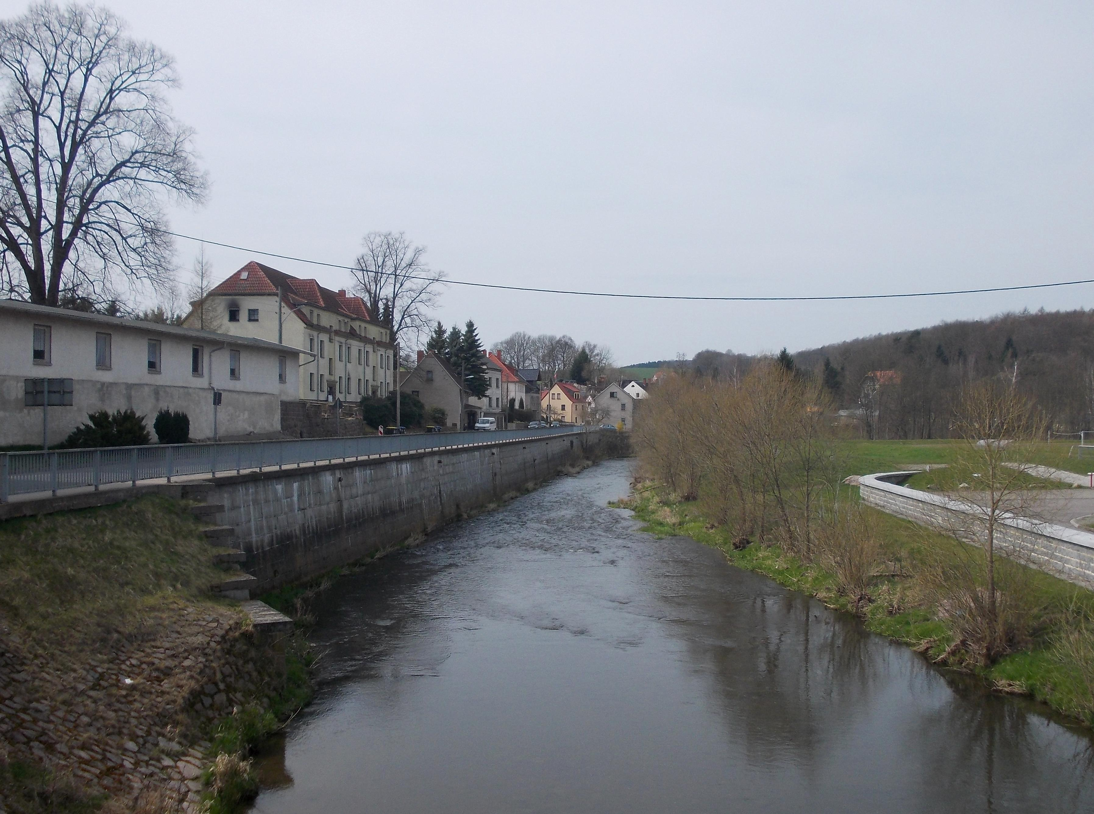 Striegis river in Böhrigen (Striegistal, Mittelsachsen district, Saxony)